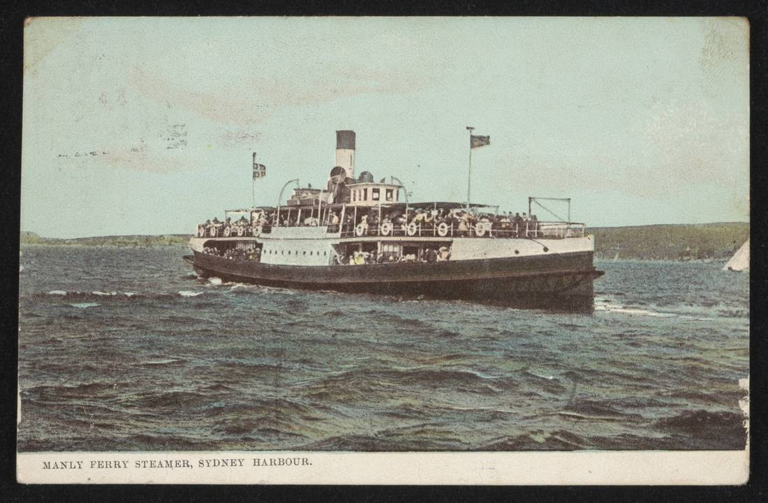 SS Manly (1896) on Sydney Harbour (1905) from postcard